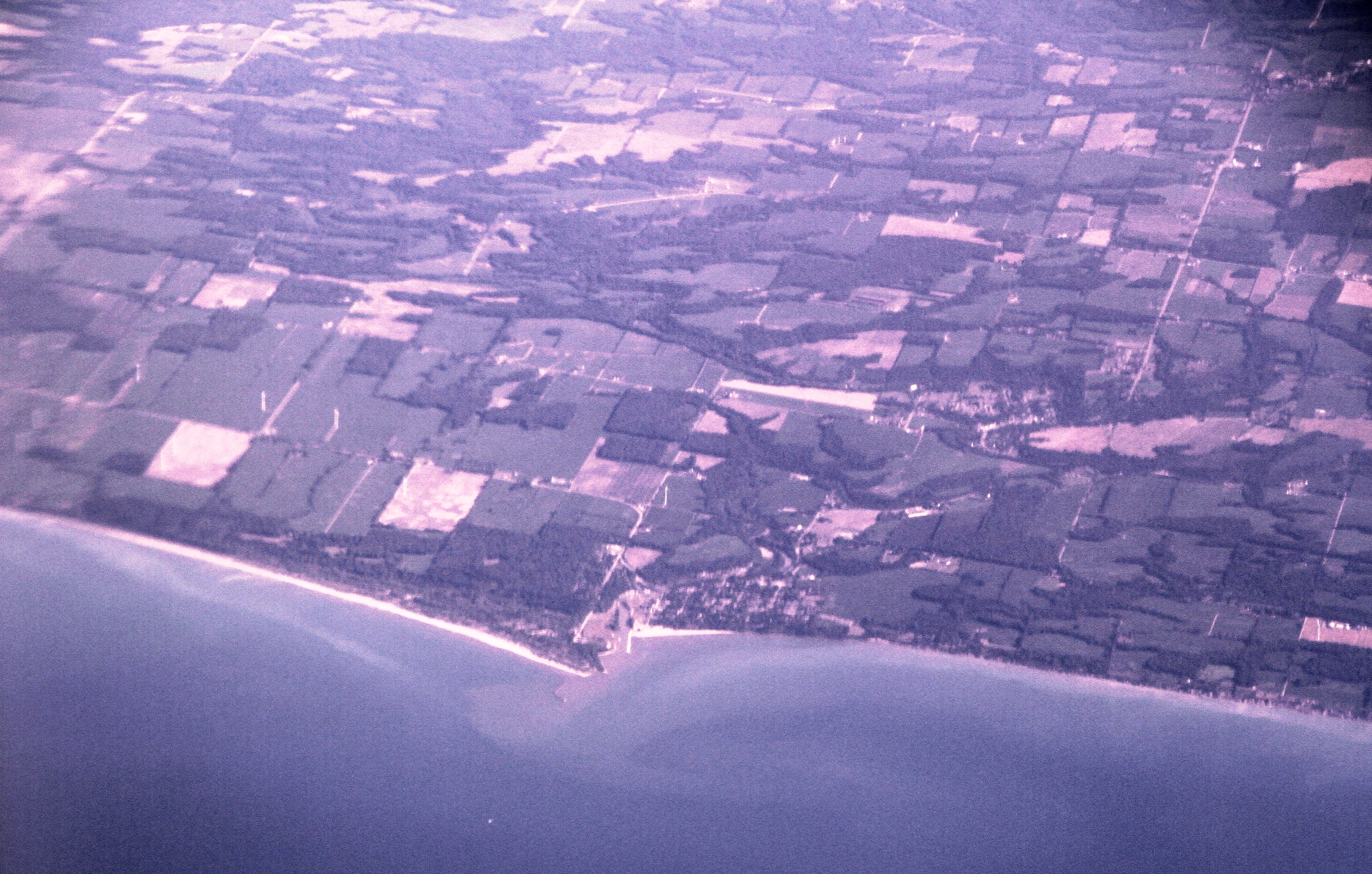 Aerial view from the southeast towards the northwest, over Elgin county, Ontario (Canada).